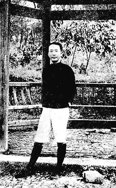 Qu Qiubai, at Changting, Fujian on June 18, 1935.